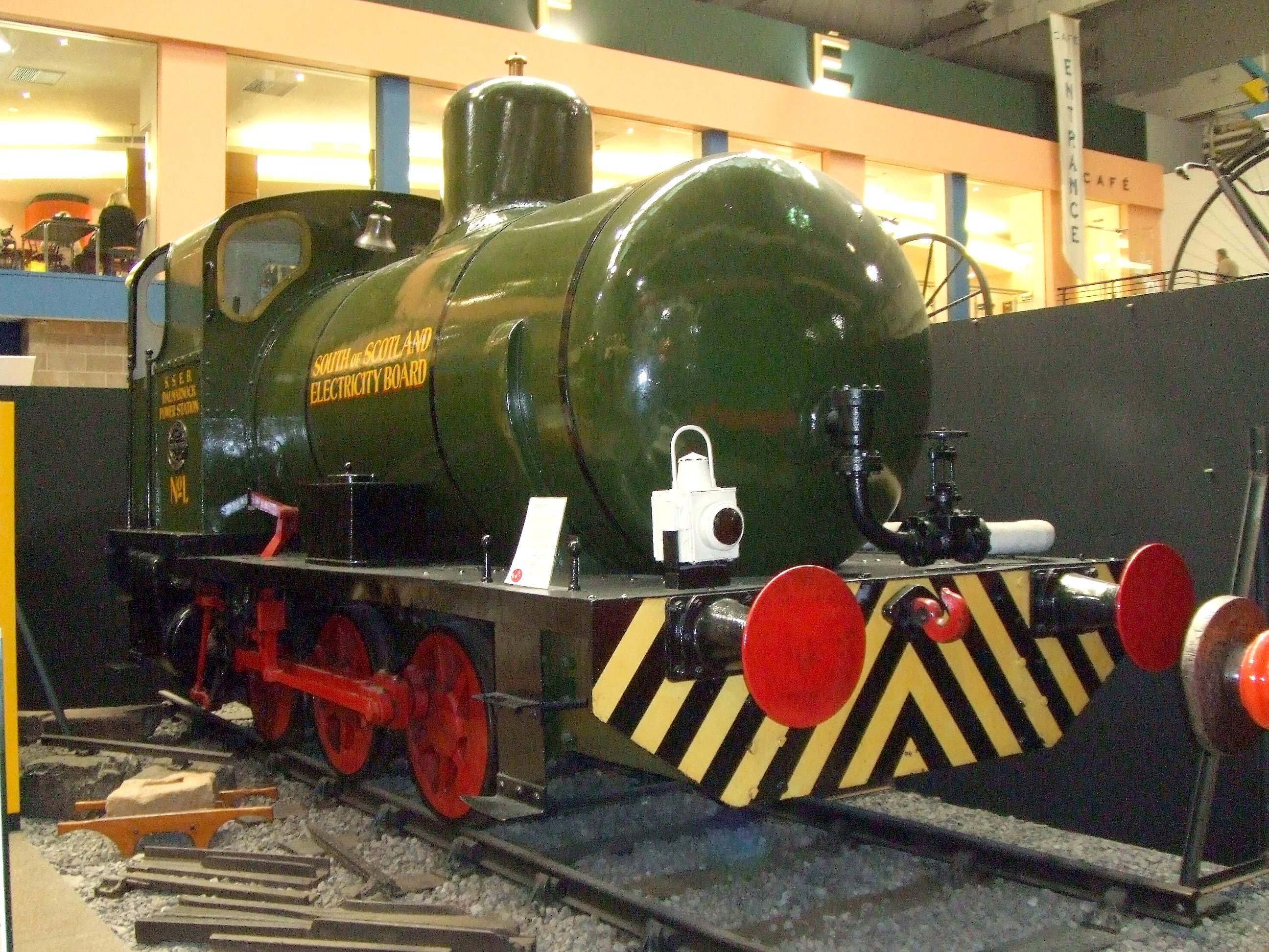 Barclay Fireless 0-6-0 No.1571 of 1917. Built for the Ministry of Supply and used in the Royal Ordnance Factory, Glasgow 1917-23 before being sold to Dalmaroch Poer Station, until withdrawn by the South of Scotland Electricity Board in 1968. At the Museum of Transport, Glasgow, 03/07.